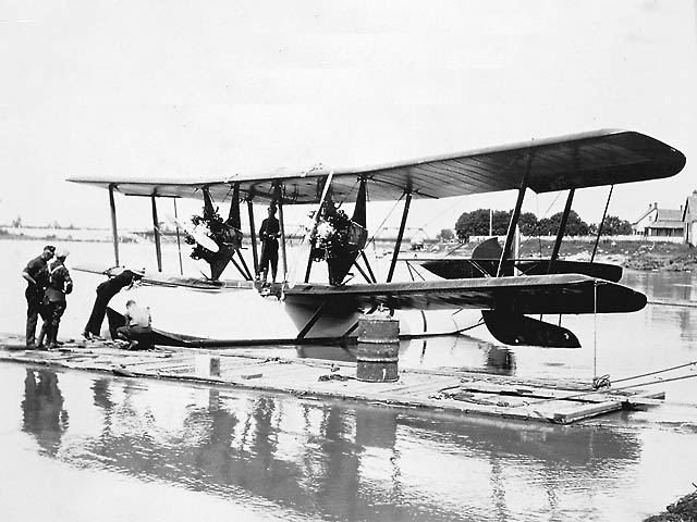 Canadian Vickers Varuna